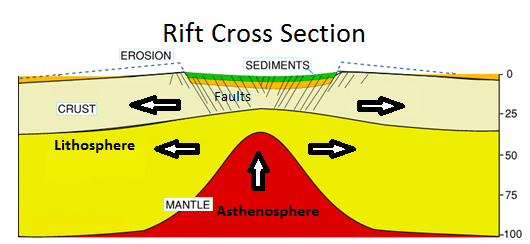 cross section of a general rift